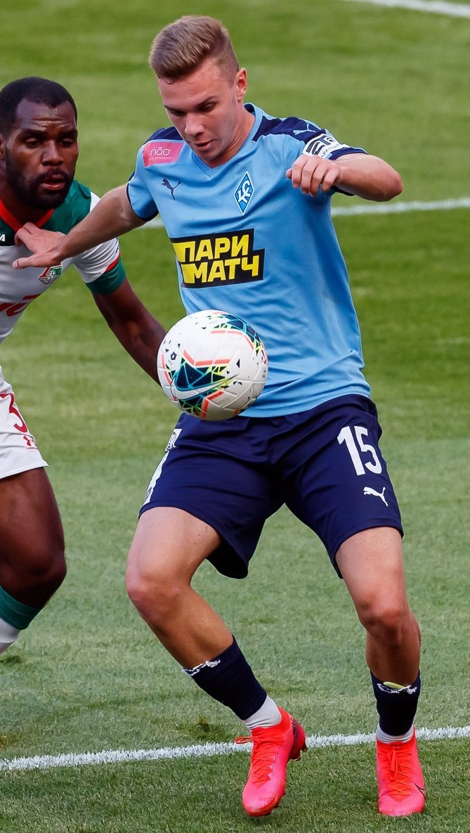 Maksim Glushenkov with PFC Krylia Sovetov Samara in a game against FC Lokomotiv Moscow.